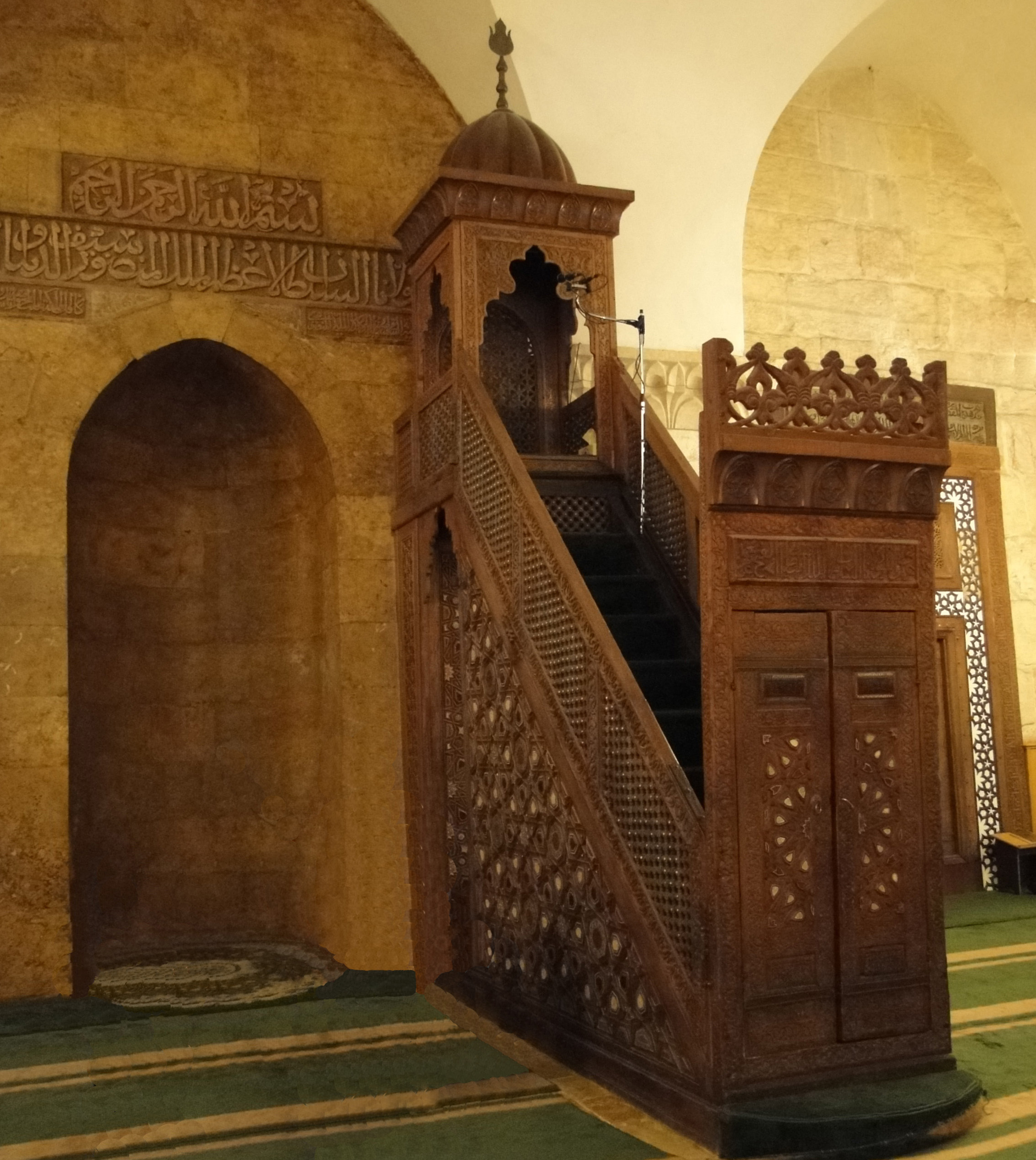 Mihrab and minbar of the Great Mosque of Aleppo, Syria